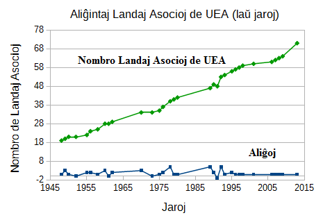 Approximate number of national associations of the Universal Esperanto Associatioin (UEA), 1950 - 2013. Please note that the statistical base (Esperanto Wikipedia article about the national associations of UEA) is not very complete; some numbers may be a bit different.